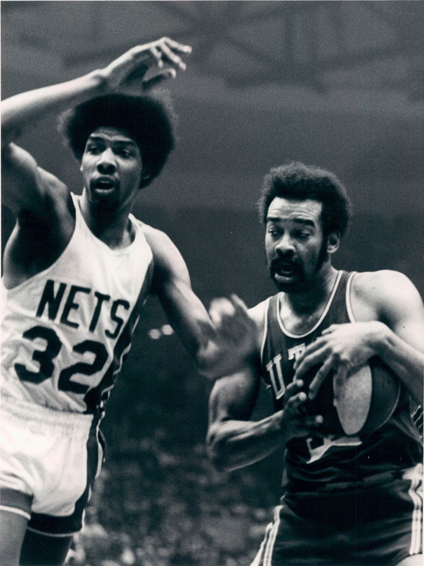 Professional basketball players Willie Wise and Julius Erving